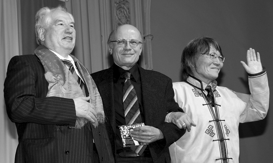 Chinghiz Aitmatov (left) at the 2007 Cologne Literature Festival with Publishing Director Lucien Leitess (center) and Mongolian writer Galsan Tschinag (right).